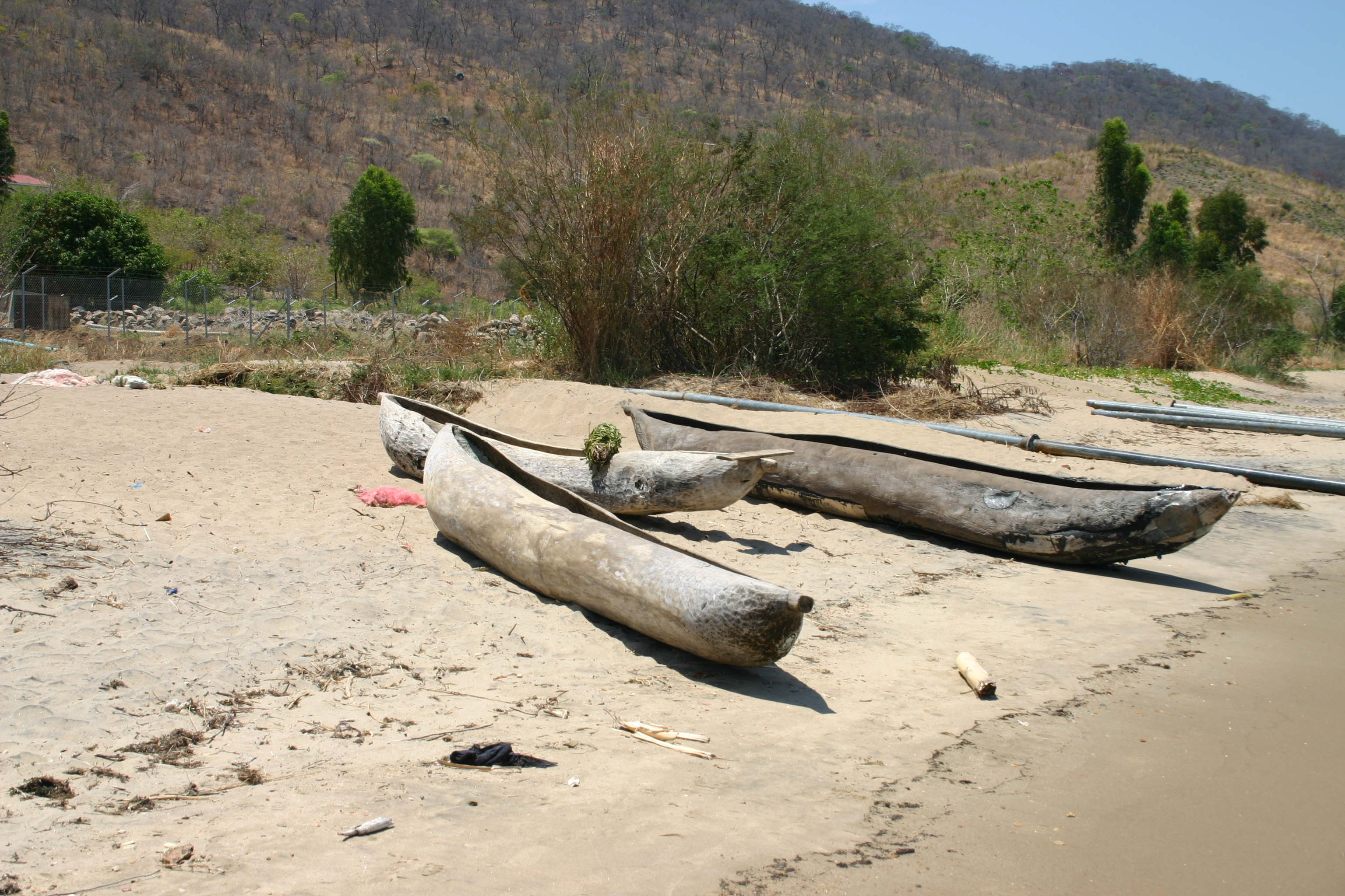 Boats on the shore of Lake Malawi